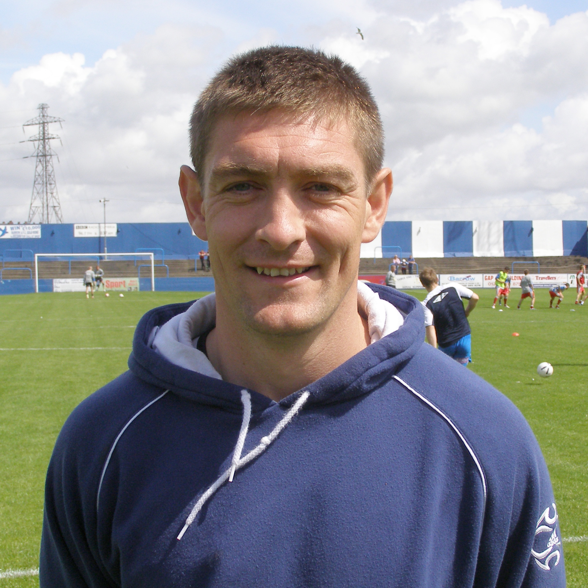 Joint manager Dave Bayliss in pre-season training at Holker Street.